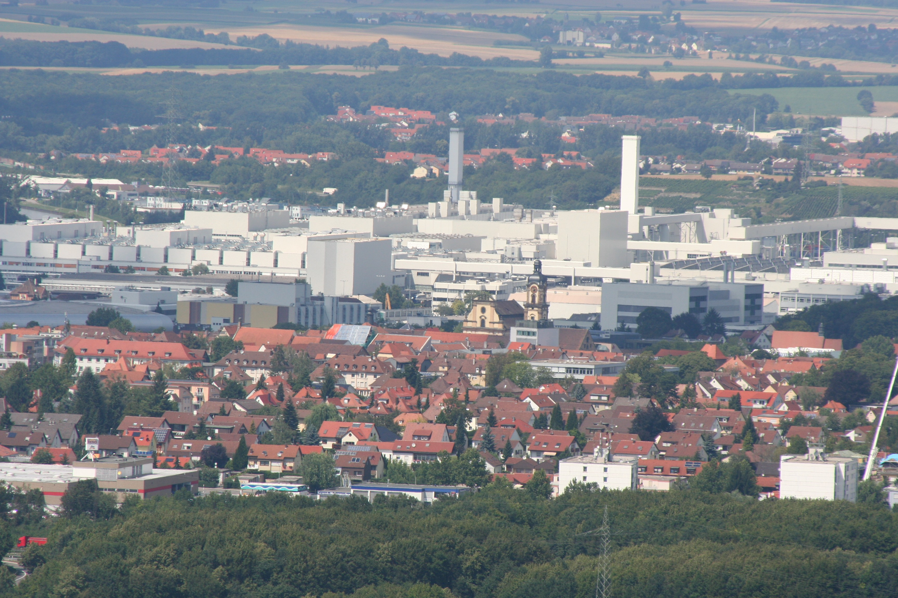 Neckarsulm as seen from the Wartberg tower in Heilbronn